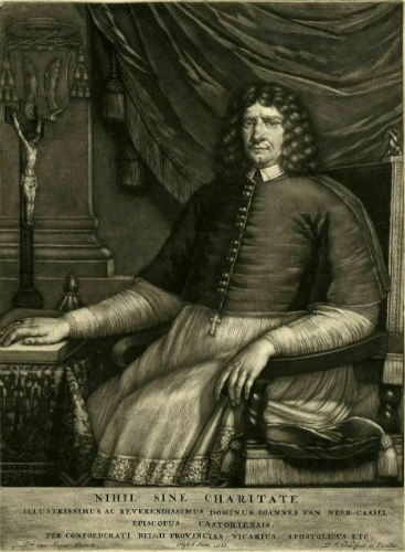 Portrait of Johannes van Neercassel (1623-1686) in 1680.